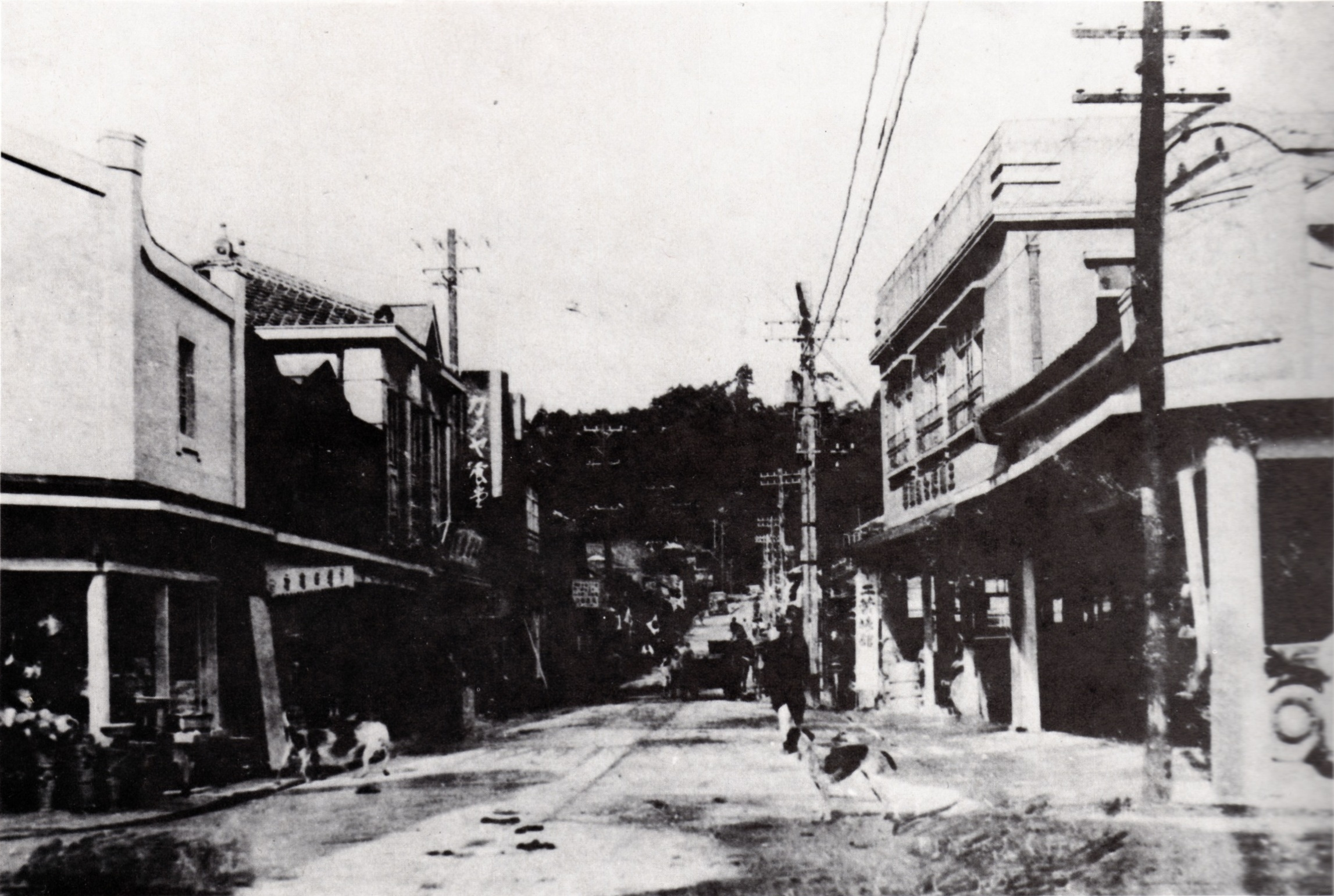 Kitada Street in 1931 (Present Central Kanoya City, Kagoshima Prefecture, Japan)